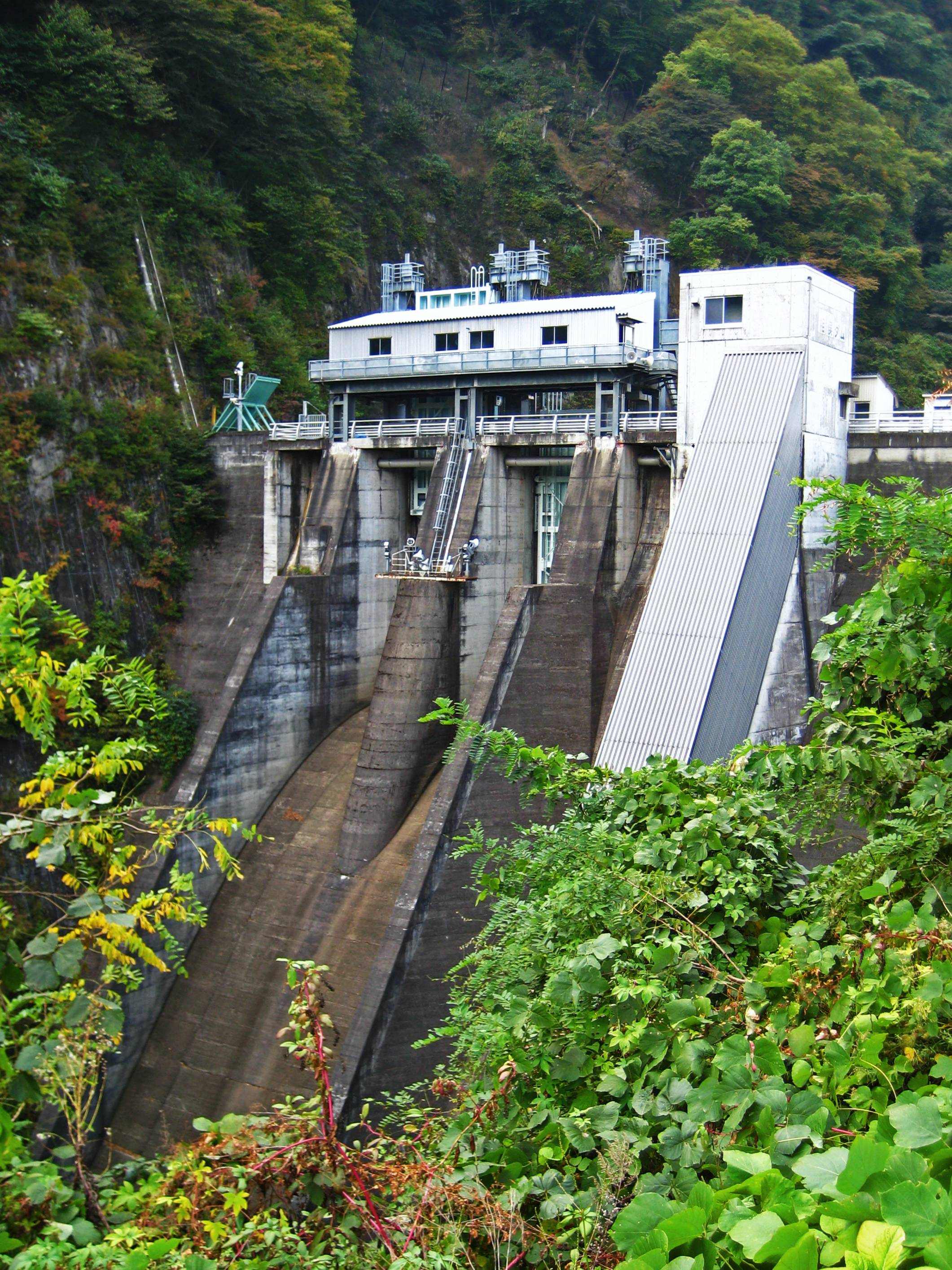 Aimata Dam.